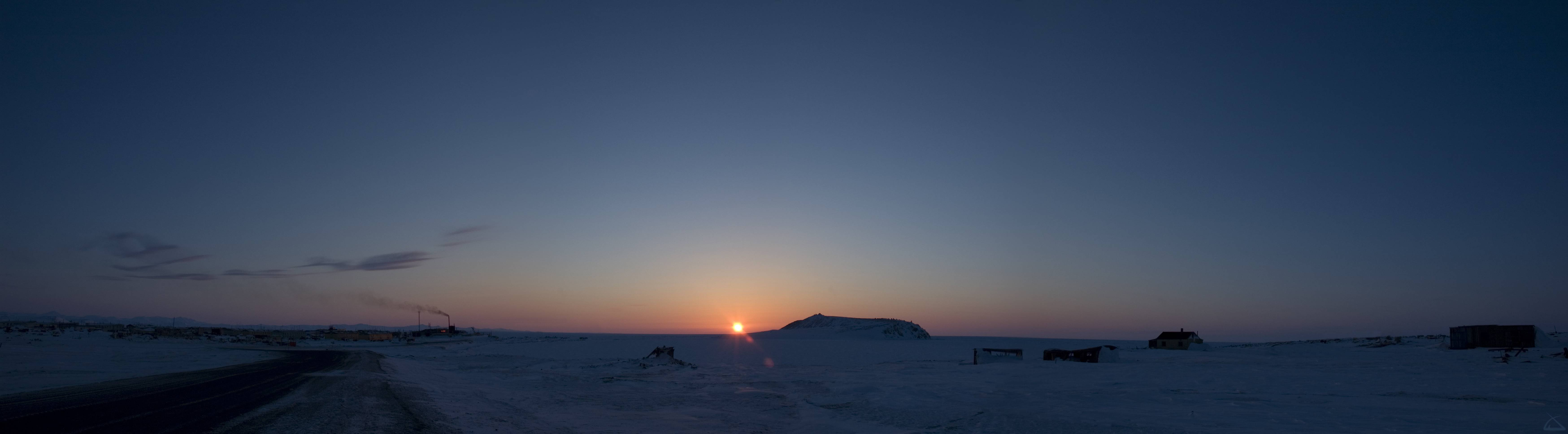 Ryrkaypiy